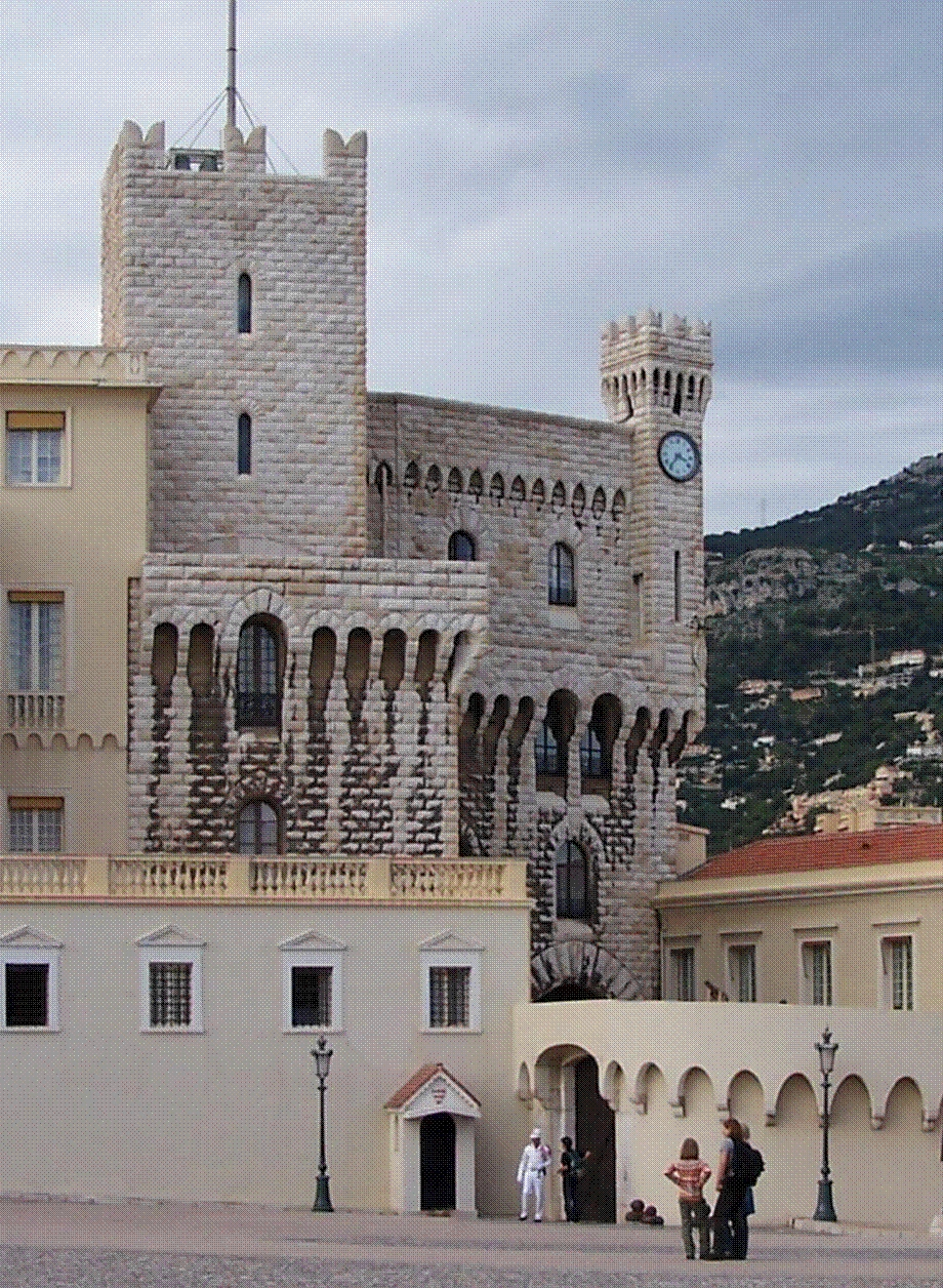 Edited deatil from Image:Panorama schloss monaco.jpg Uploaded to commons hereImage:Panorama schloss monaco.jpg At commons it bears the following licence and attribution to the photographer